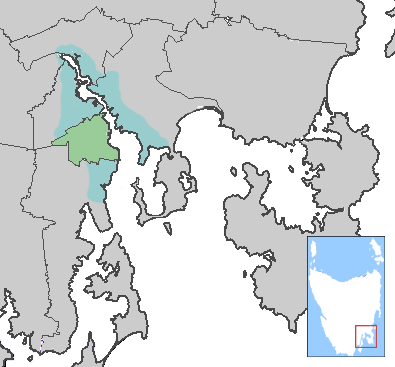 Carte de la City of Hobart, Tasmanie, Australie